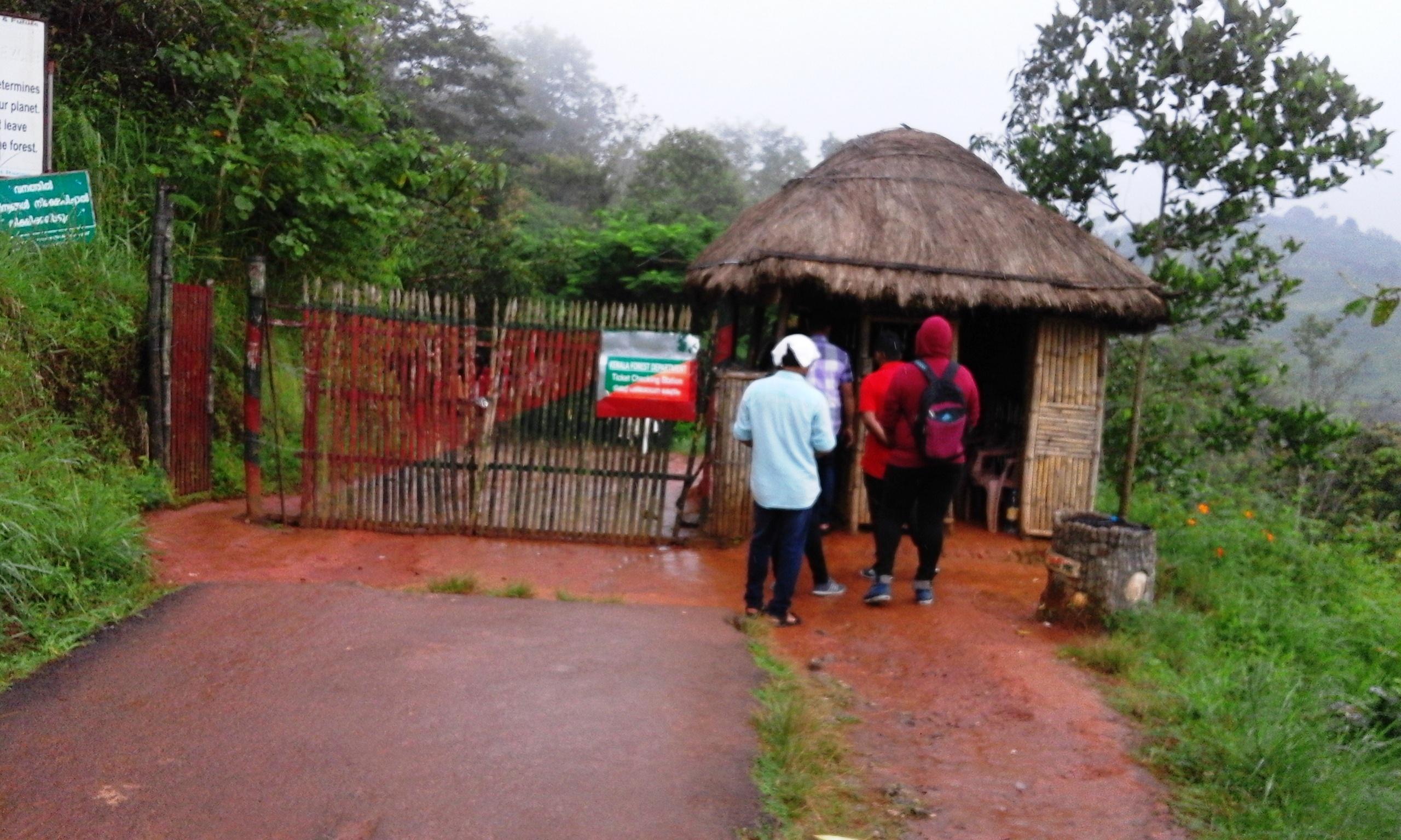 Soochippara Waterfalls, Meppadi, Wayanad, Kerala, India.